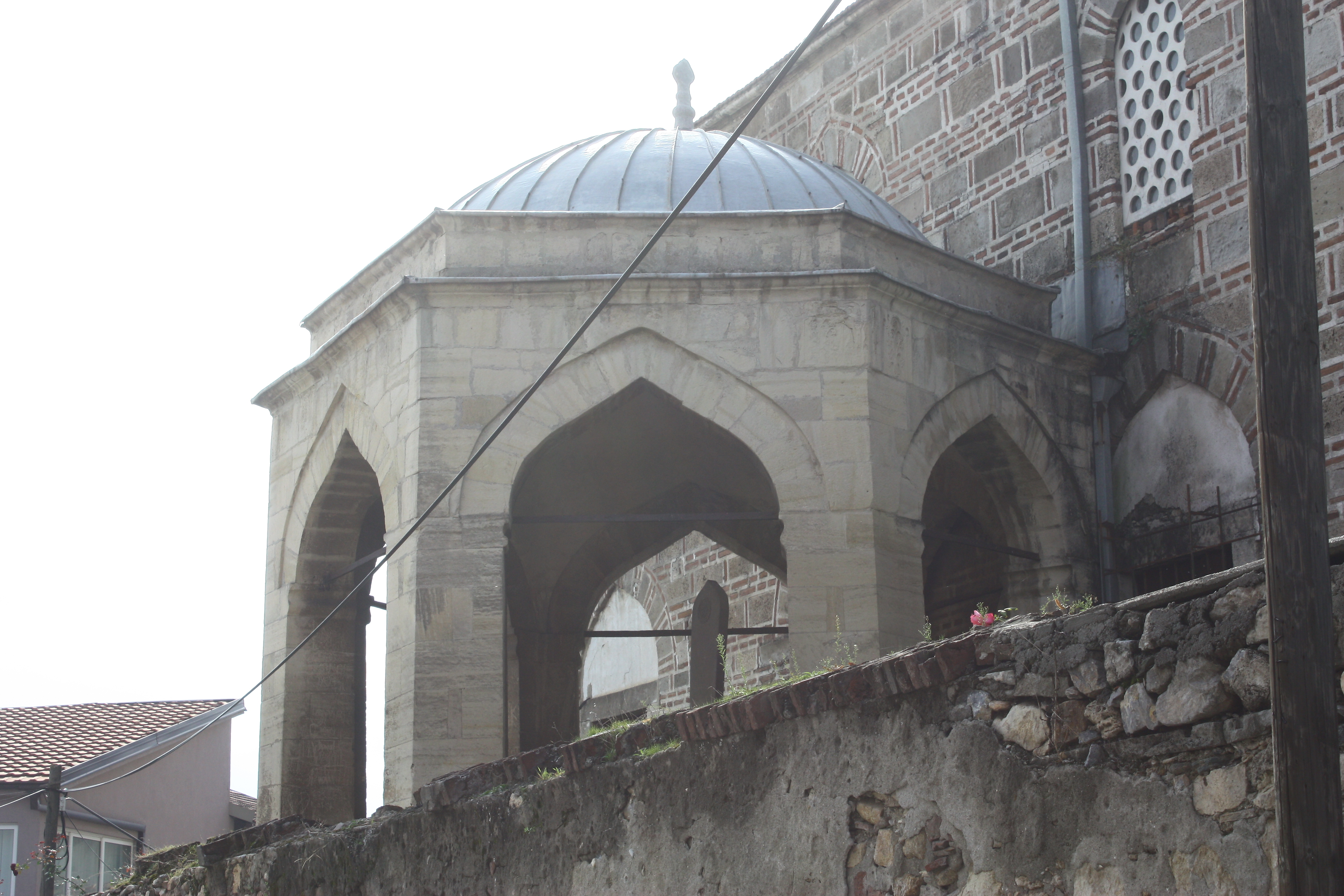 Clock Tower - Sultan Murat Mosque Macedonia Ова е фотографија на споменик на културата во Македонија со типски код: А02This is a a photo of a cultural monument in North Macedonia with type id: А02